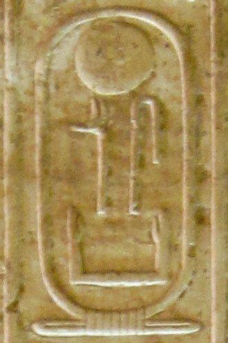 Cartouche 35, Abydos King List. Temple of Seti I, Abydos, Egypt